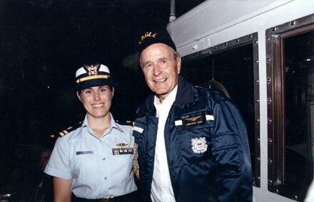 Portrait of LT Sandra L. Stosz with President George H. W. Bush